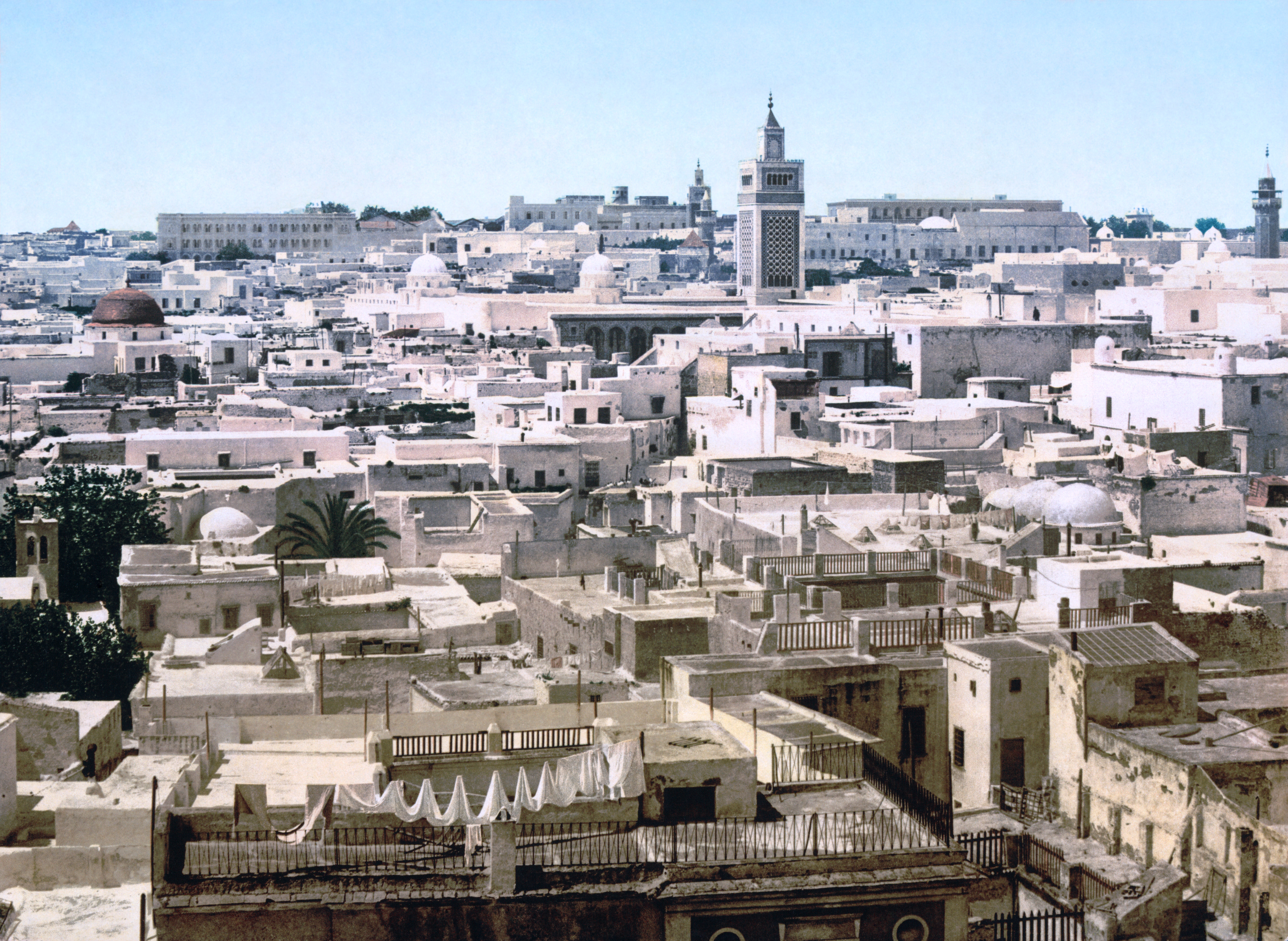 "General view from Paris Hotel, Tunis, Tunisia" photochrom print